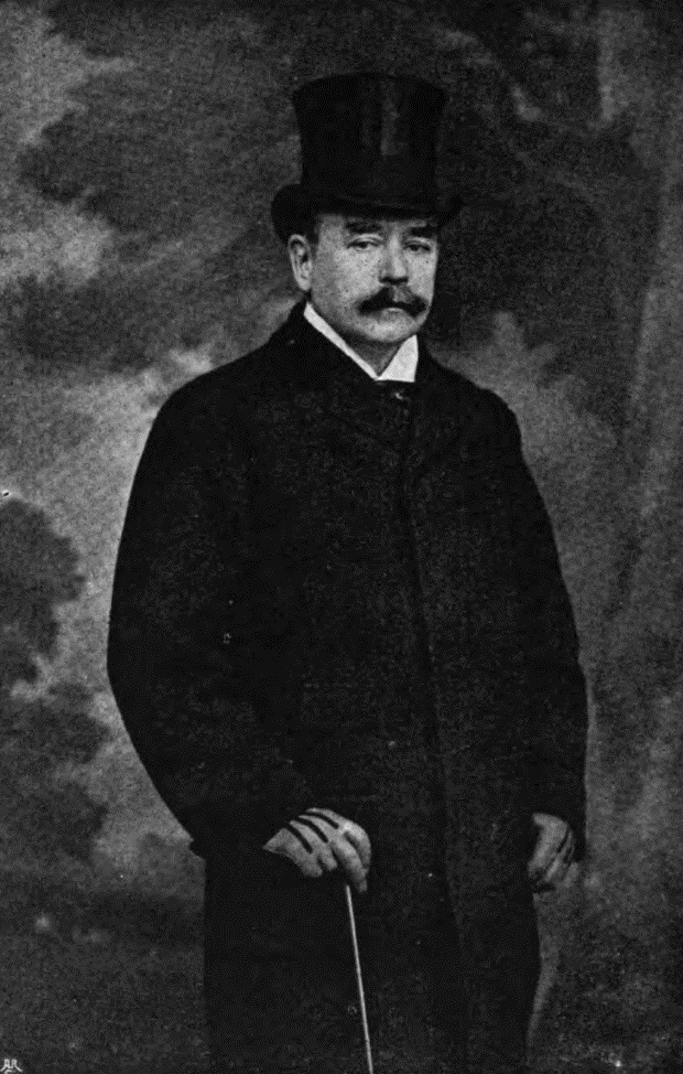 William Hurrell Mallock.